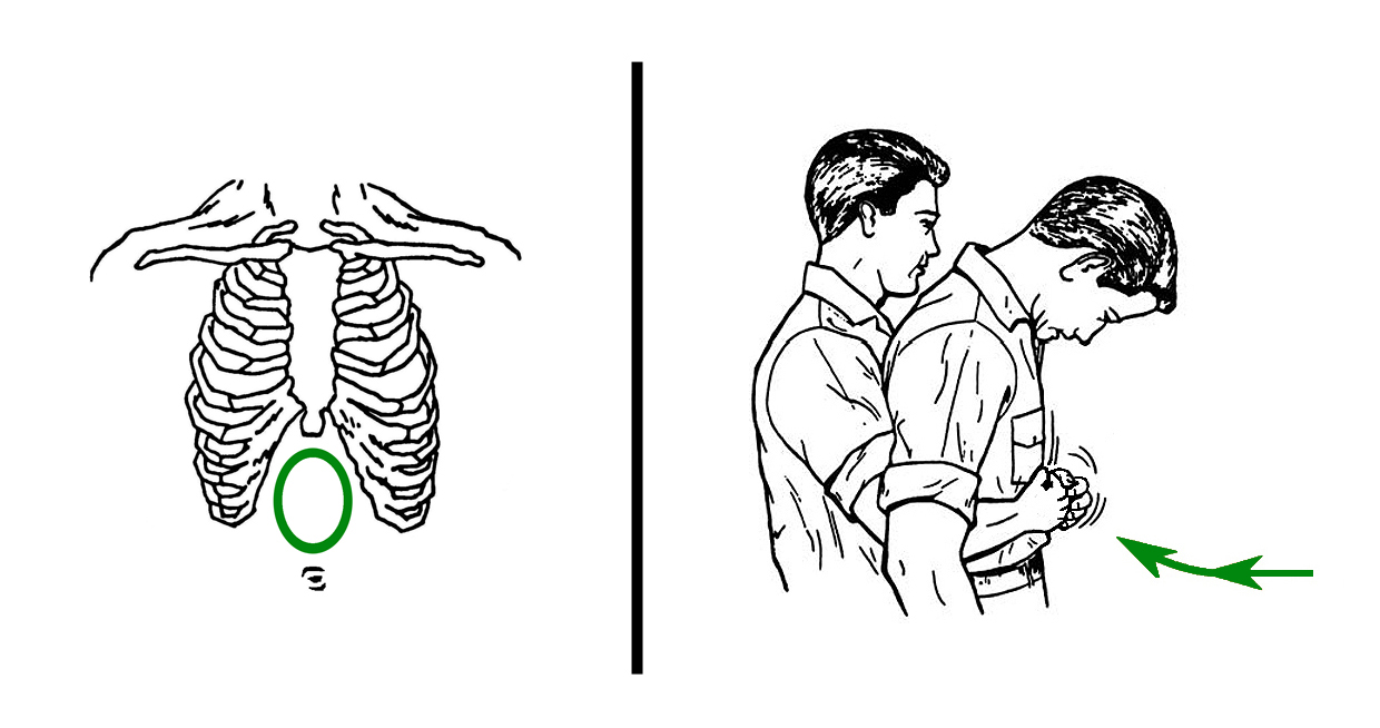 The abdominal thrusts (Heimlich) anti-choking maneuver. It shows the applying point, along with thorax and navel.